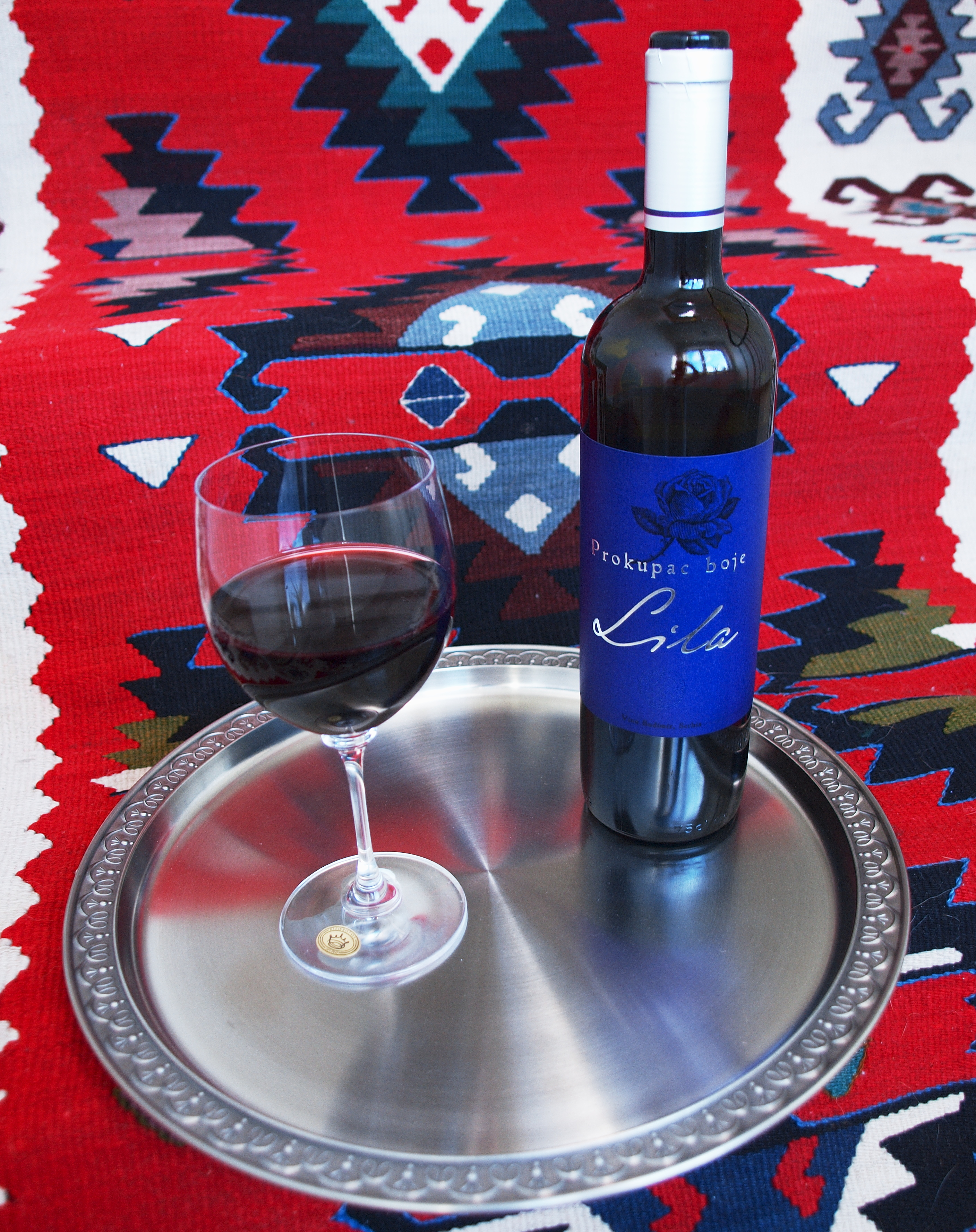 Prkupac vine variety Vino Budimir Aleksandrovac Serbia